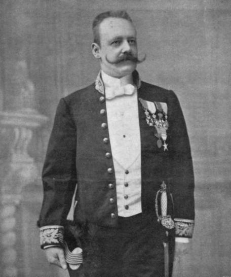 Baron Francis Dhanis (1862-1909) in gala uniform